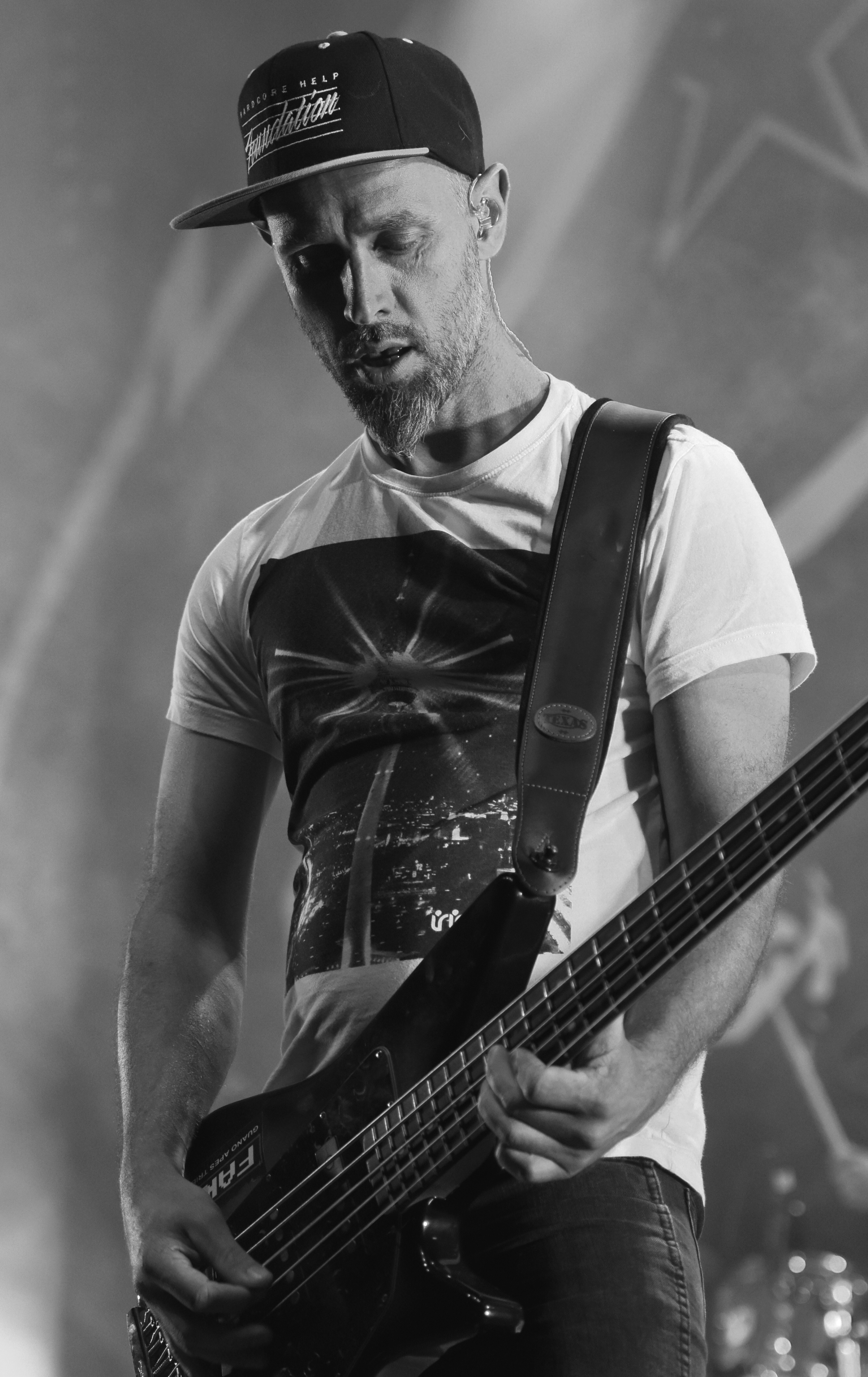 Guano Apes at the Open Flair festival in Eschwege, Germany, 2015.